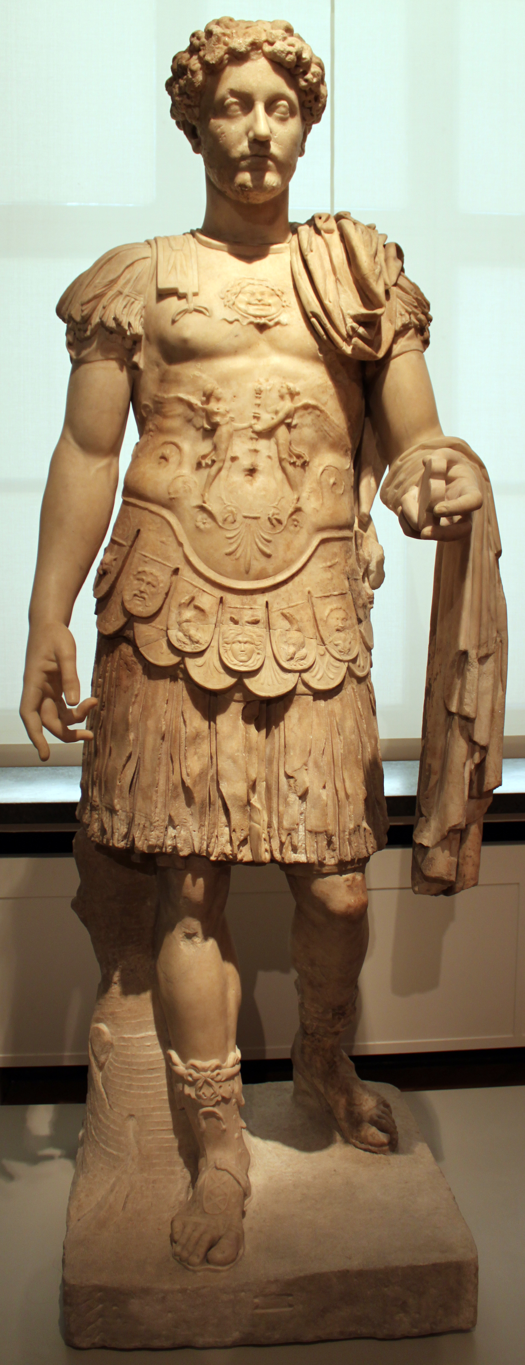 Altes Museum Native nameAltes MuseumLocationBerlinCoordinates52° 31′ 10″ N, 13° 23′ 54″ E Established1828Website control VIAF: 202689698 LCCN: n83197241 GND: 4506837-9 WorldCat Cuirassed Statue of Marcus Aurelius; Inv. SK 368